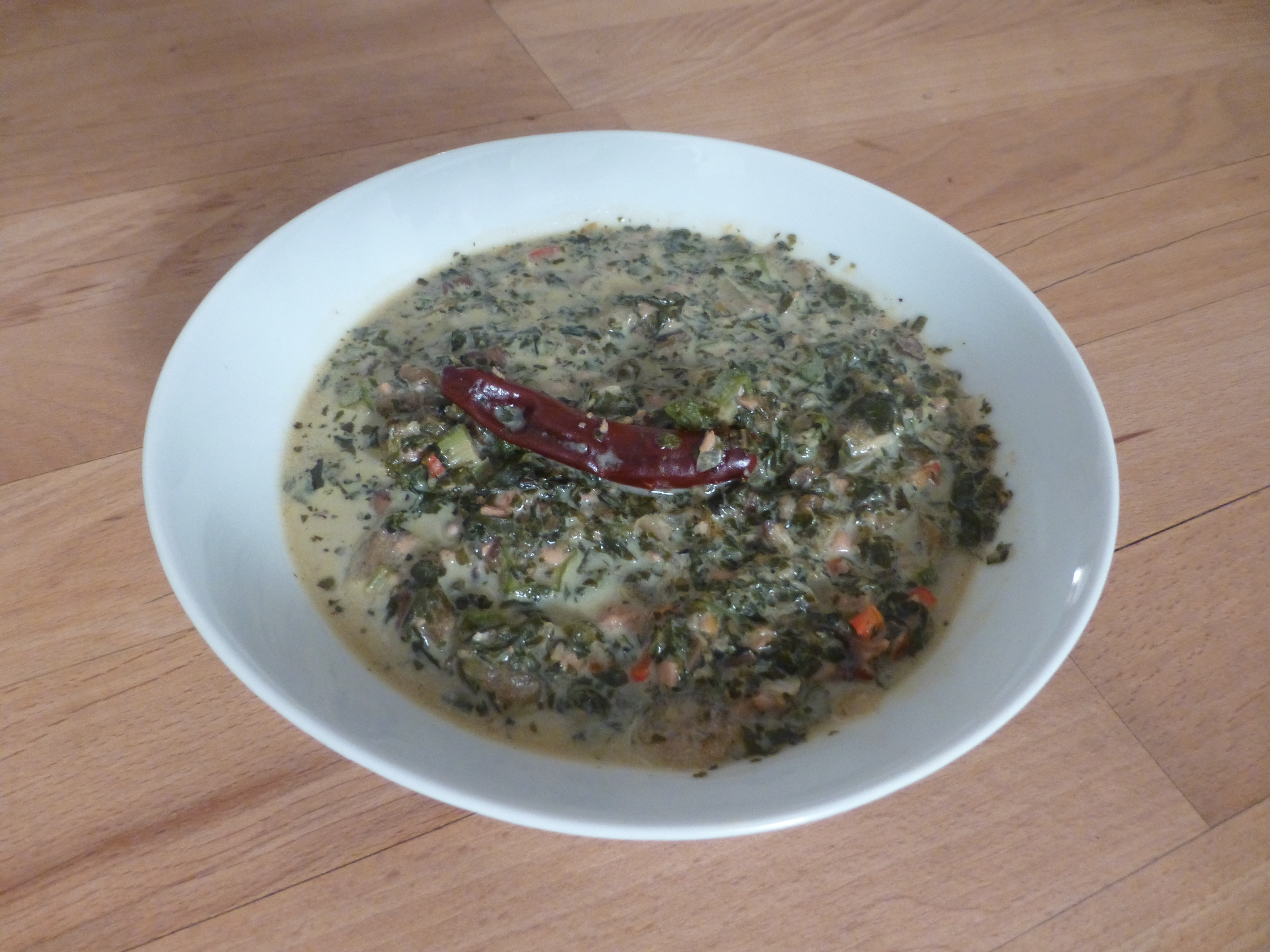 Callaloo. Trinidadian soup or stew based on leafy vegetables.